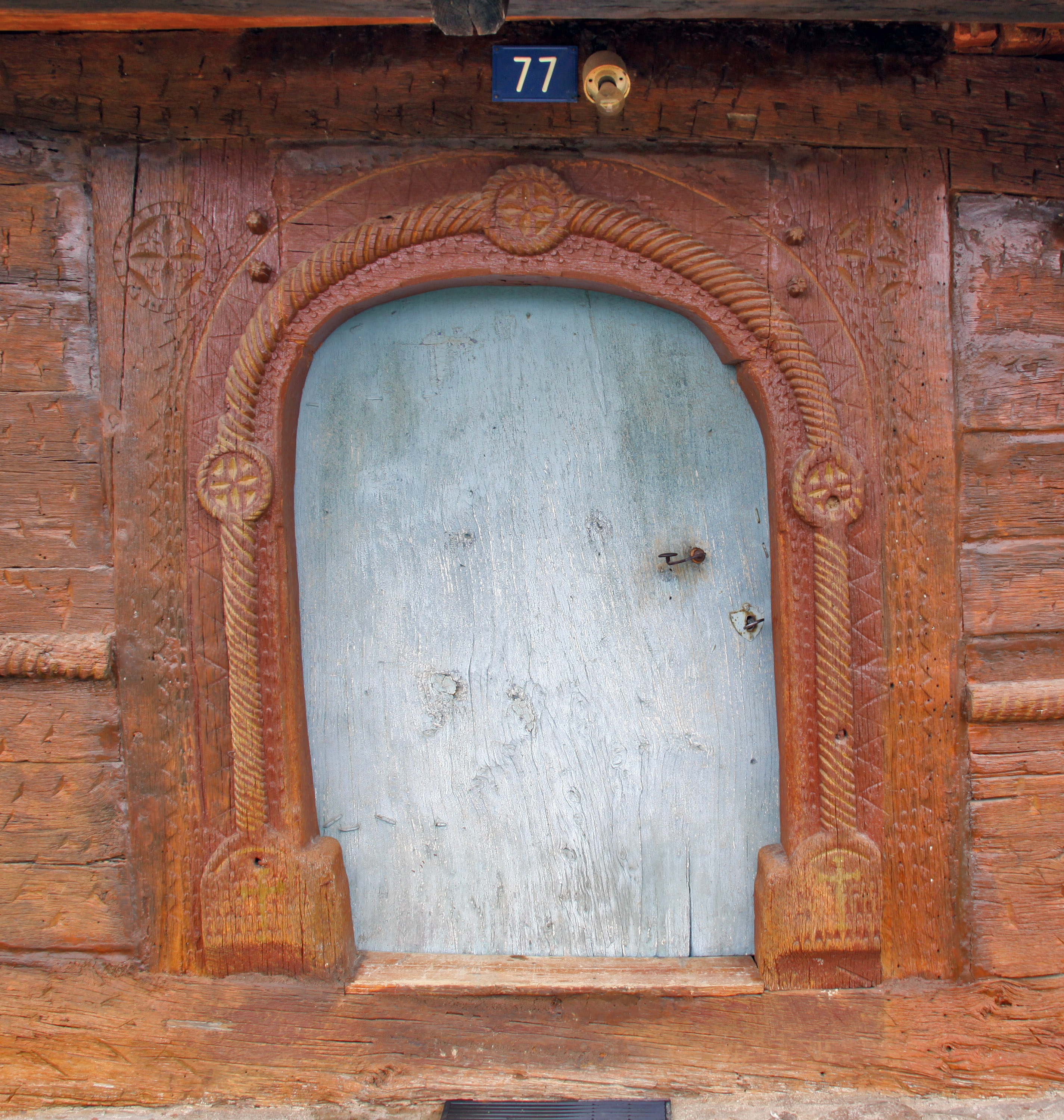 Saca, Bihor, the wooden church: entrance portal.